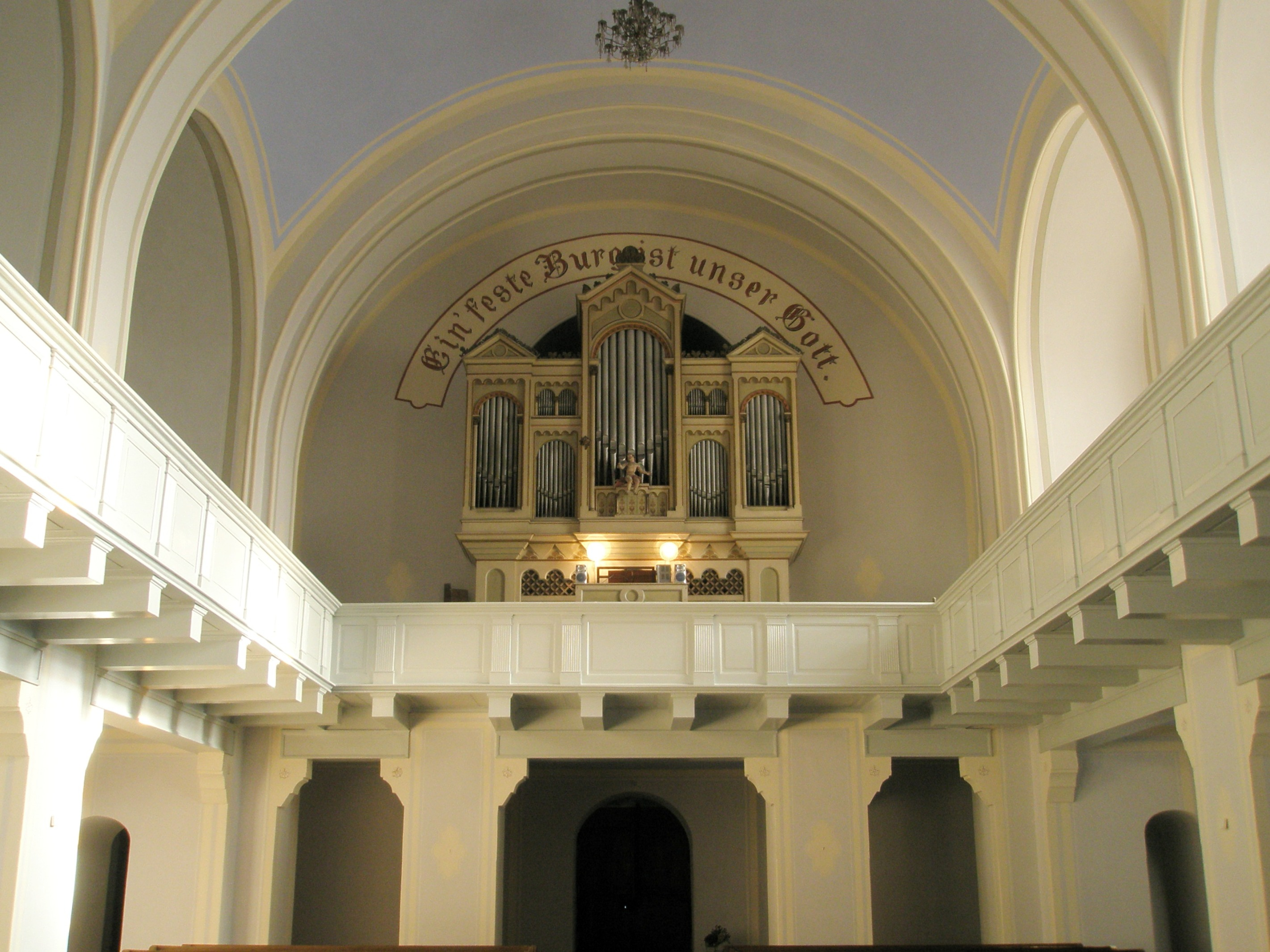 Protestant church in Suchdol nad Odrou (Zauchtel), Czech republic